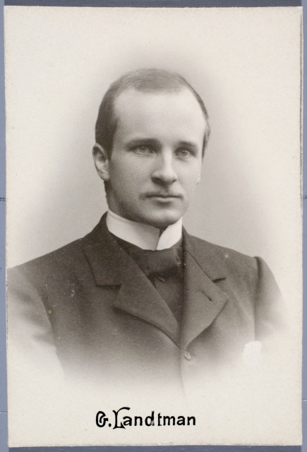 Photograph of the Finnish ethnologist and philosopher Gunnar Landtman.